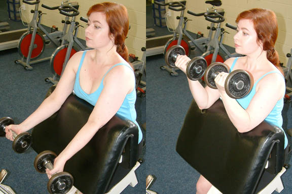 Thanks go to the model, Emily.